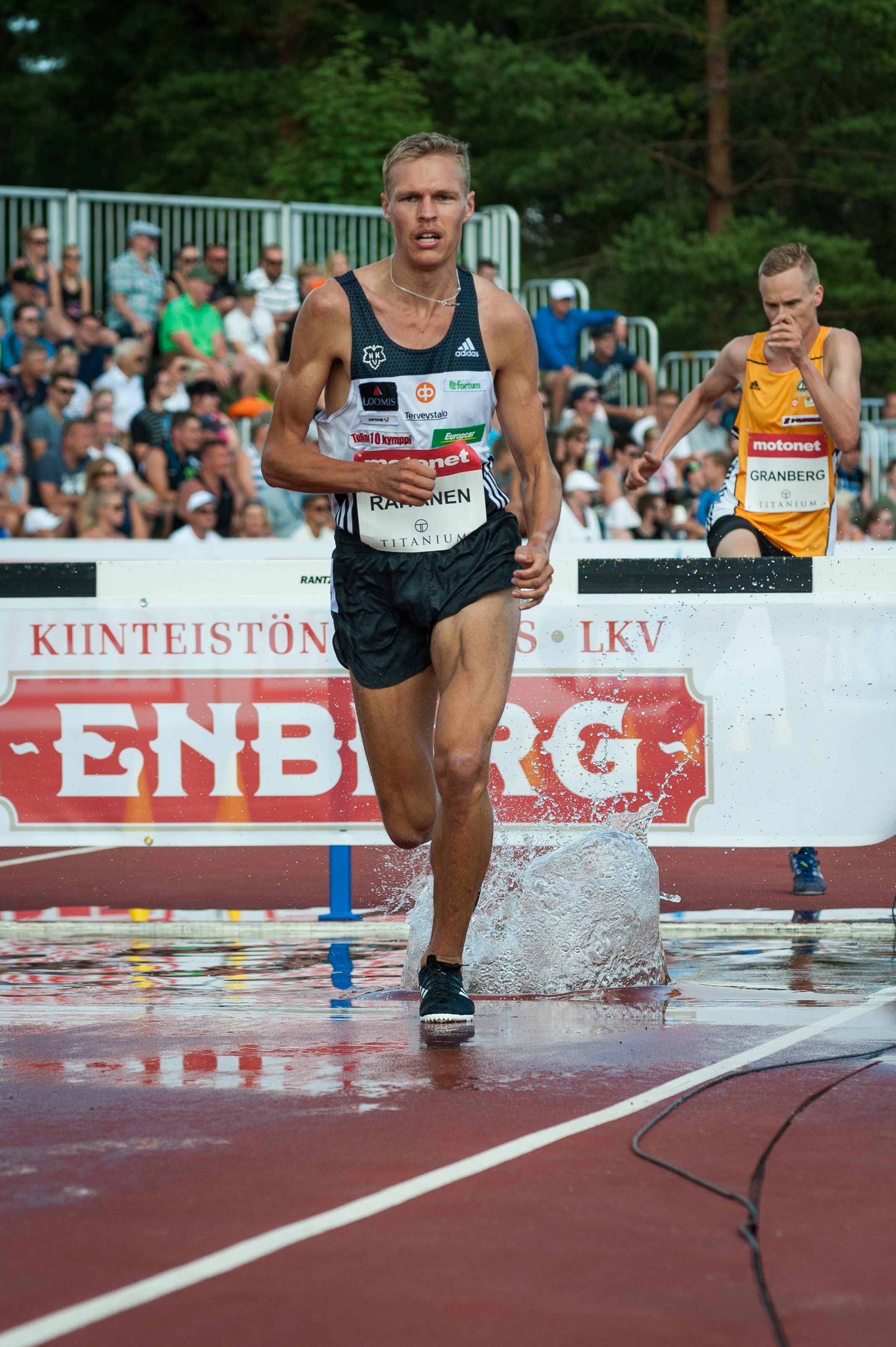 Men's 3000 m steeplechase competition at the 2018 Kalevan Kisat, the Finnish championships in athletics, in Jyväskylä, Finland.